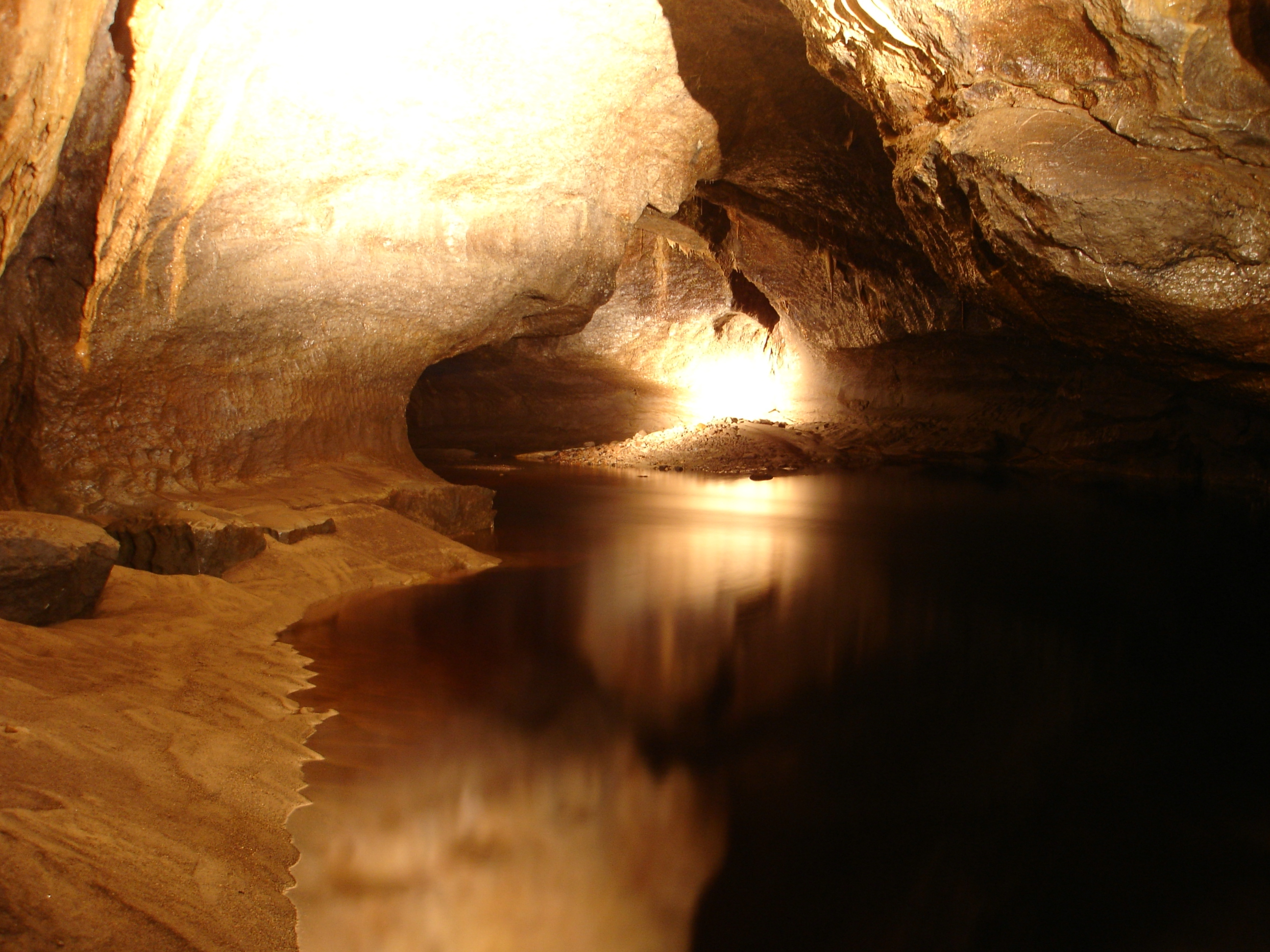 Upstream Skreen Hill passage, at the end of the Marble Arch Caves showcave. The water is largely made up of the surface river named the Owenbrean.